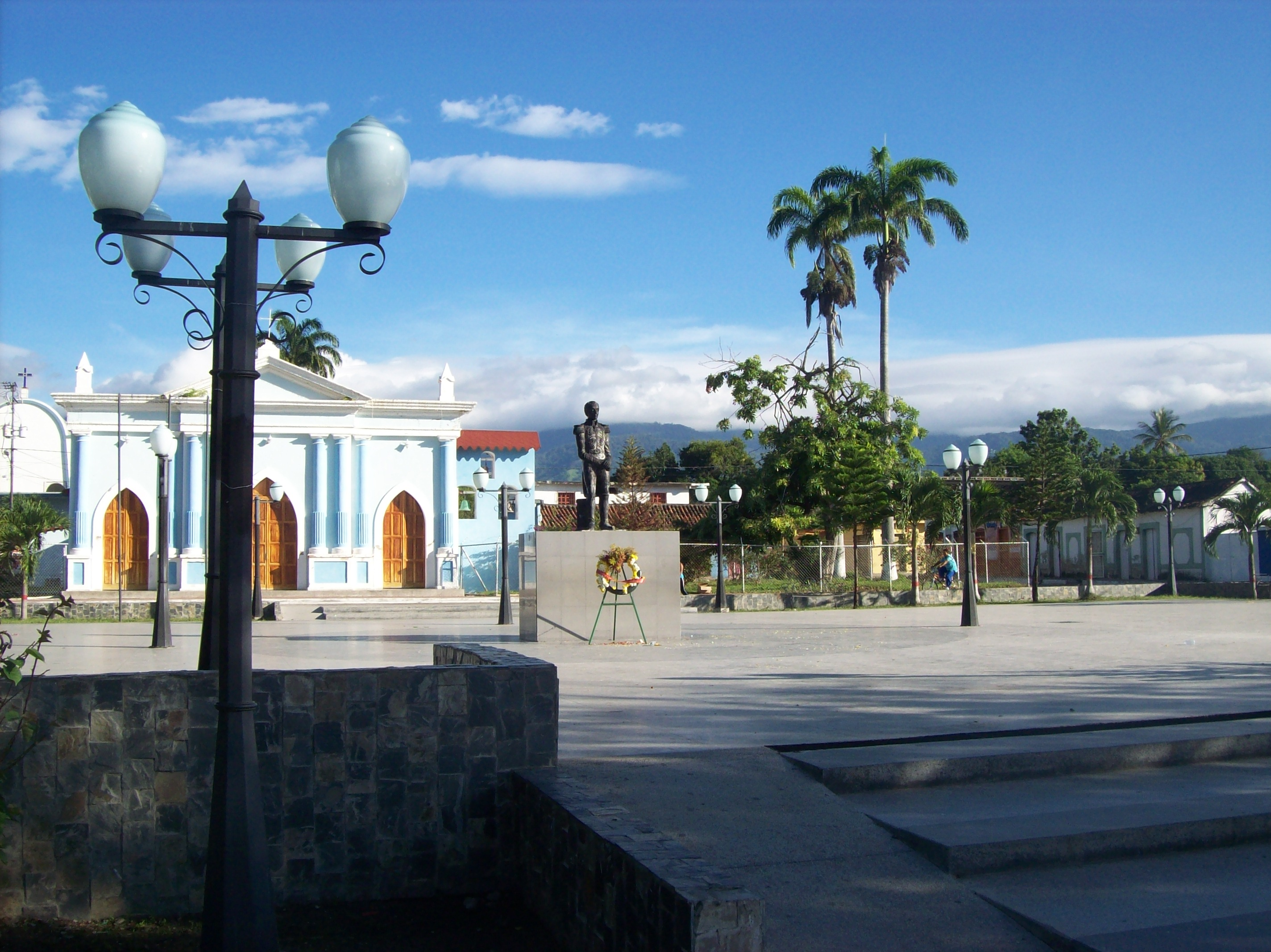 square of San Pablo, Capital of the Municipality Aristides Bastidas, Yaracuy state. Venezuela